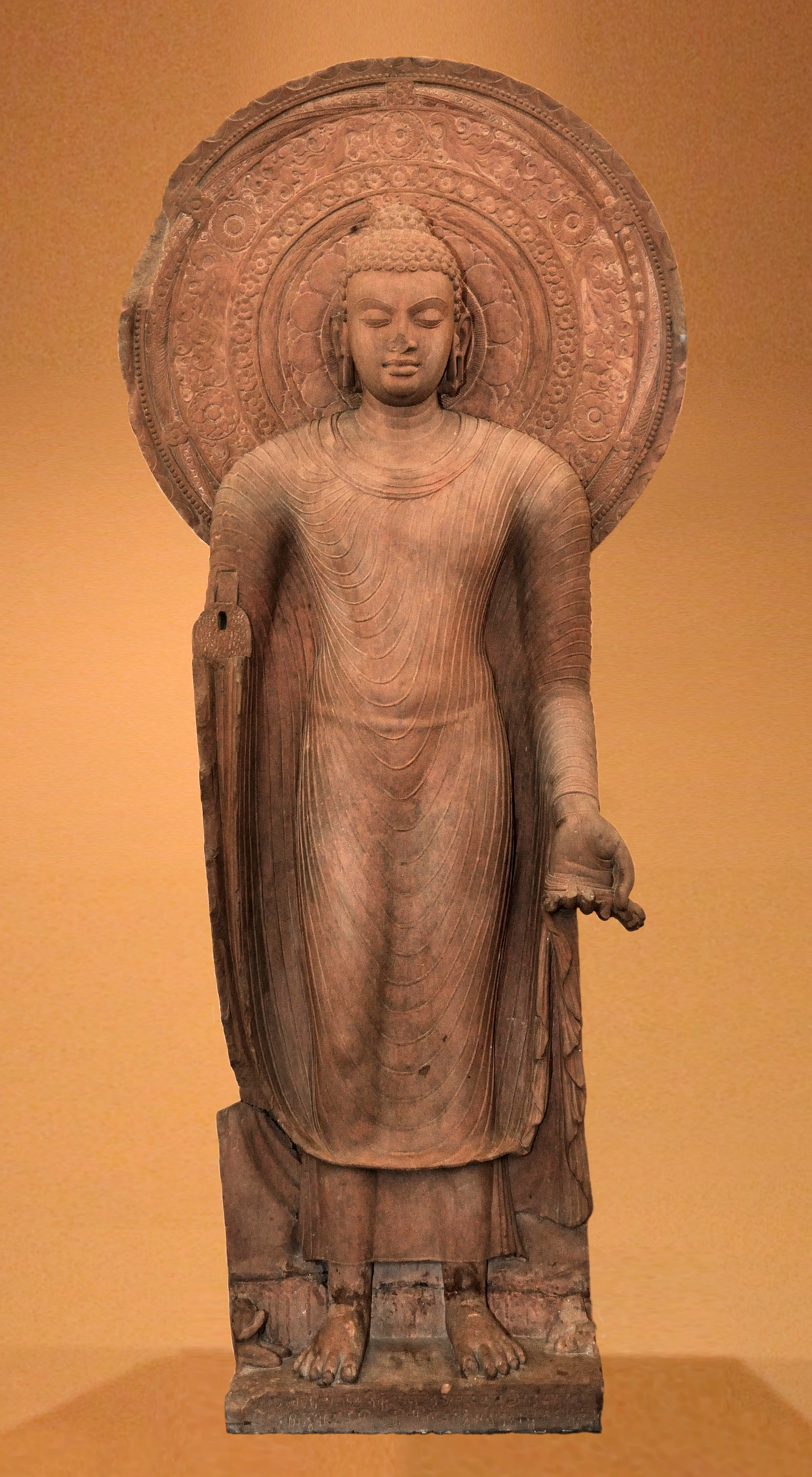 Standing Buddha Installed by Buddist Monk Yasadinna - Circa 5th Century CE - Jamalpur Mound - ACCN 00-A-5 - Government Museum Mathura Red background Inscription on the piedestal: 1 deyadharmoyam Śākyabhikṣo Yaśadinnasya yadatra punyam tadbhavatu ma- 2 tapittro acaryopaddhyayanam ca sarvvasatvanuttarajnanavaptaye "This is the religious gift of the Sakya monk Yaśadinna (Yasodatta). Whatever religious merit there is in the (gift), let it be for the attain- ment of supreme knowledge by (his) parents and (his) teachers and preceptors (and) all sentient beings."p.103 "This is the pious gift of the Buddhist monk Yasdinna. Whatsoever merit (there is) in this (Gift), let it be for the attainment of the supreme knowledge of (his) parents, teachers and preceptors and of all sentient beings ." Reference